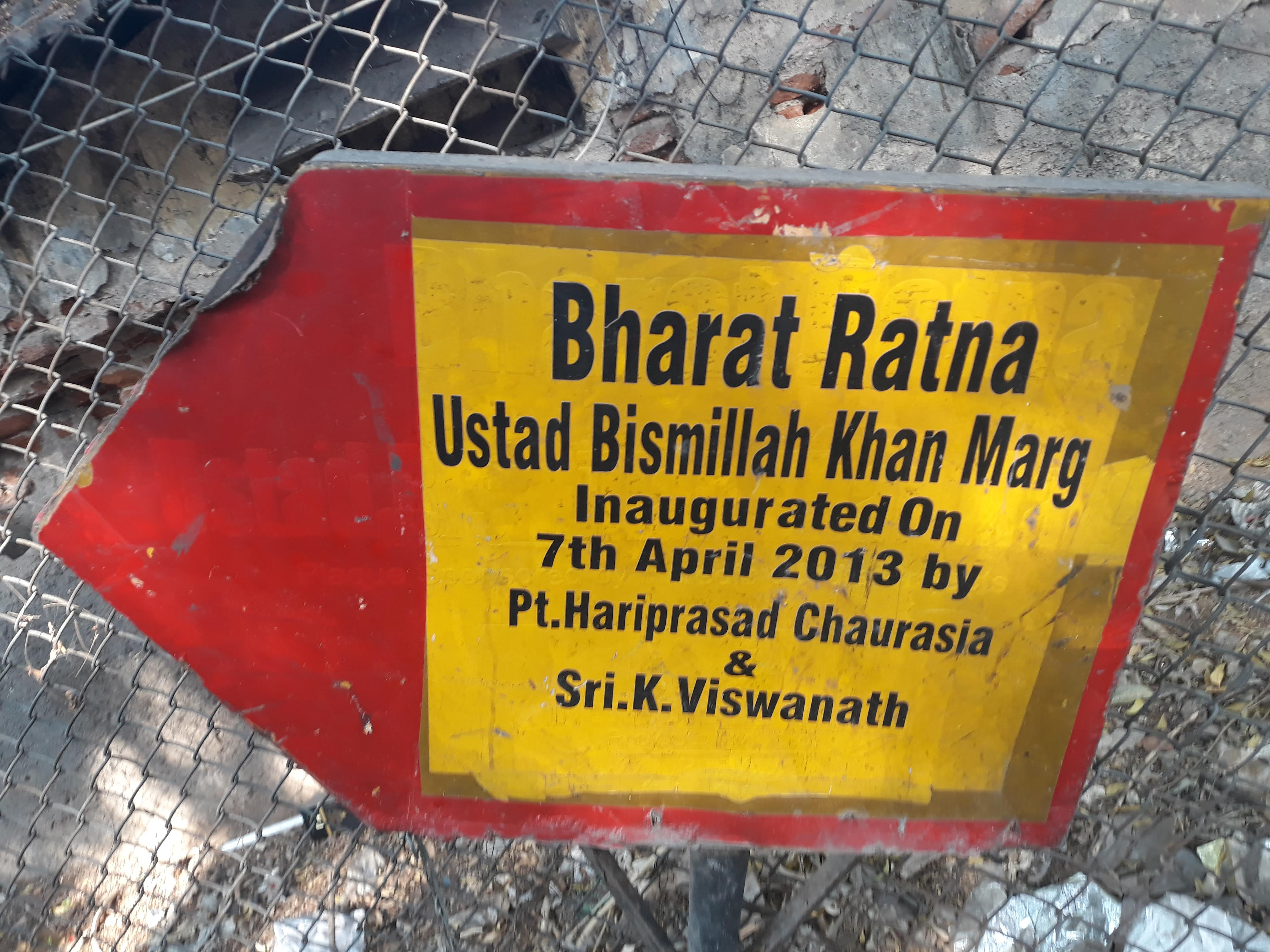 Bharat Ratna Ustad Bismillah Khan Marg, Hyderabad